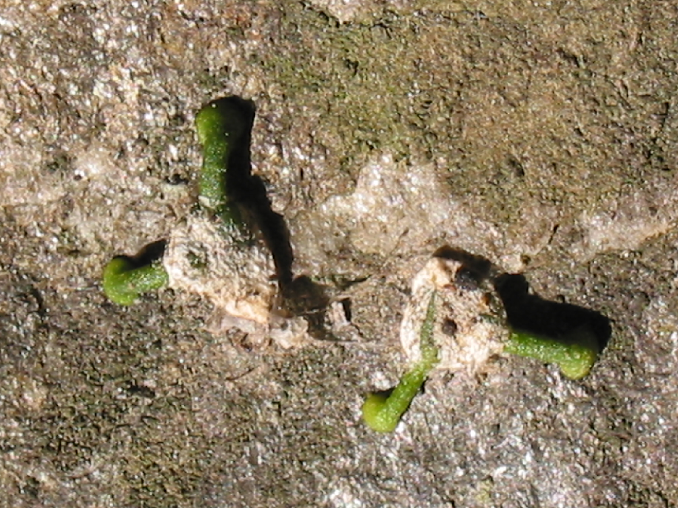 Mistletoe after germination, fixed to substrate : epiphyte stade.